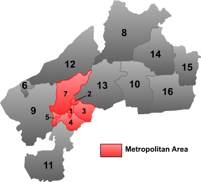 Map of Qiqihar Prefecture — of Heilongjiang Province.